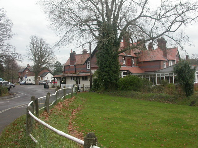 The New Forest, Ashurst Spacious pub on the A35 and next to Ashurst railway station. Several drinking areas & restaurant around large central bar, with outdoor seating area & lawn. At my visit, three Fuller's real ales were on offer: London Pride, ESB & HSB.